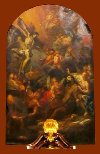 "Saint Francis Receiving the Stigmata", a painting by Jan Kryštof Liška, Church of Saint Francis of Assisi, Prague, Czechia